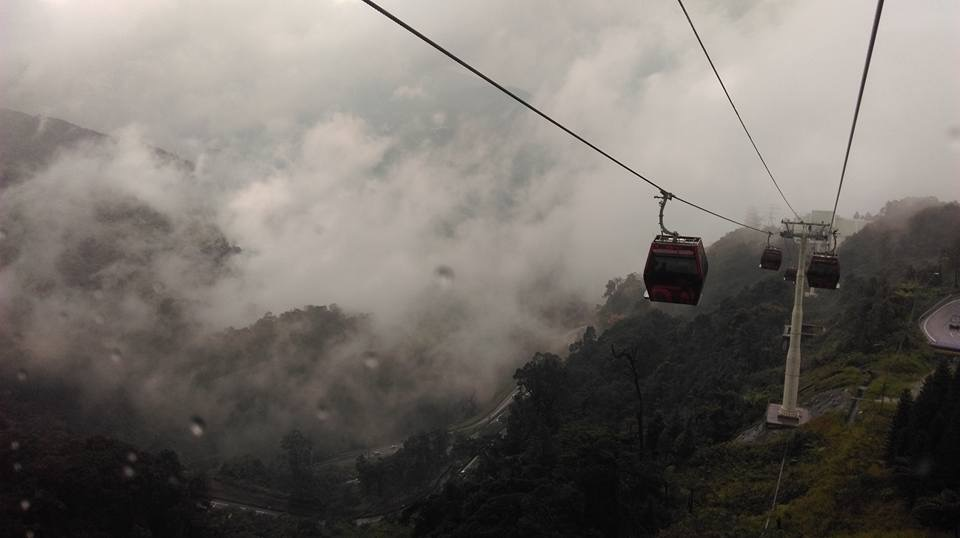 The transportation electrically operated, and its importance appears in the rugged areas where there are many mountains and highlands